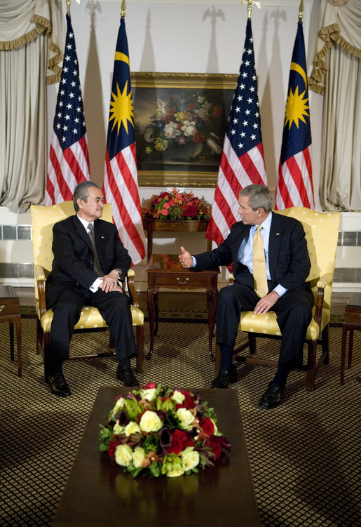 President George W. Bush meets with Prime Minister Abdullah bin Ahmad Badawi of Malaysia, Monday, Sept. 18, 2006, during the President's visit to New York City for the United Nations General Assembly.